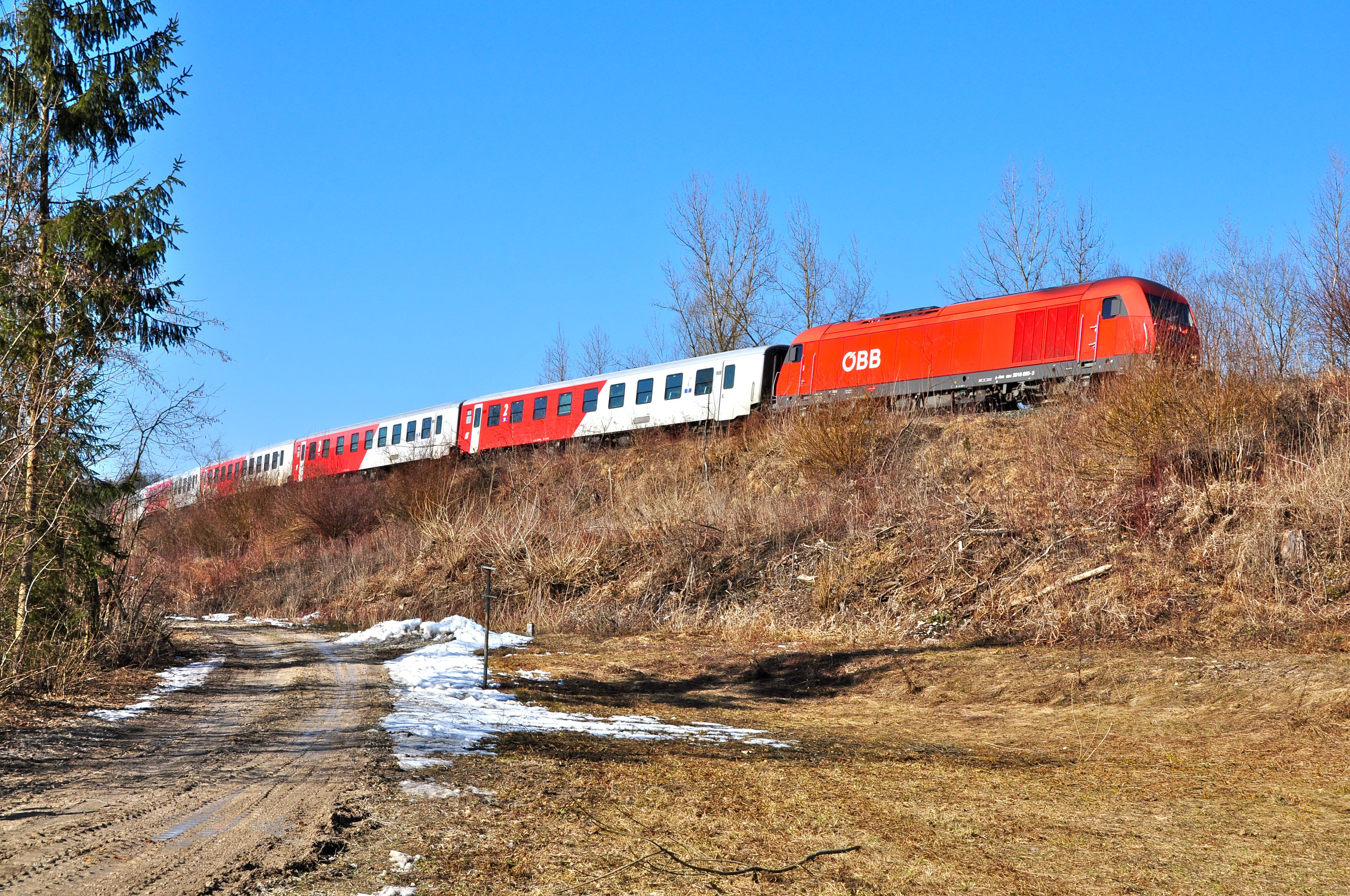 Railway line from Klagenfurt to Bleiburg near Stein im Jauntal, municipality Sankt Kanzian am Klopeiner See, district Voelkermarkt, Carinthia, Austria